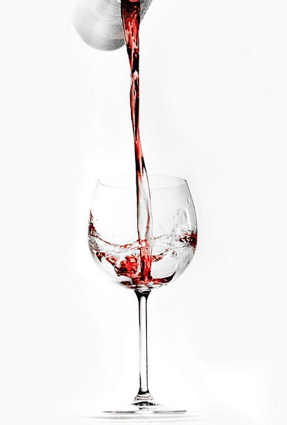 Glass of rosé